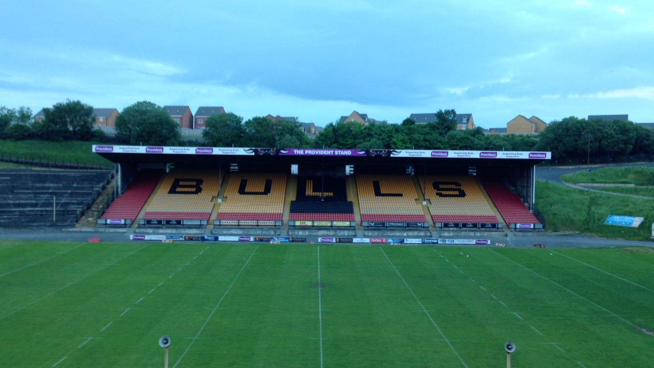 Main stand at Odsal Stadium